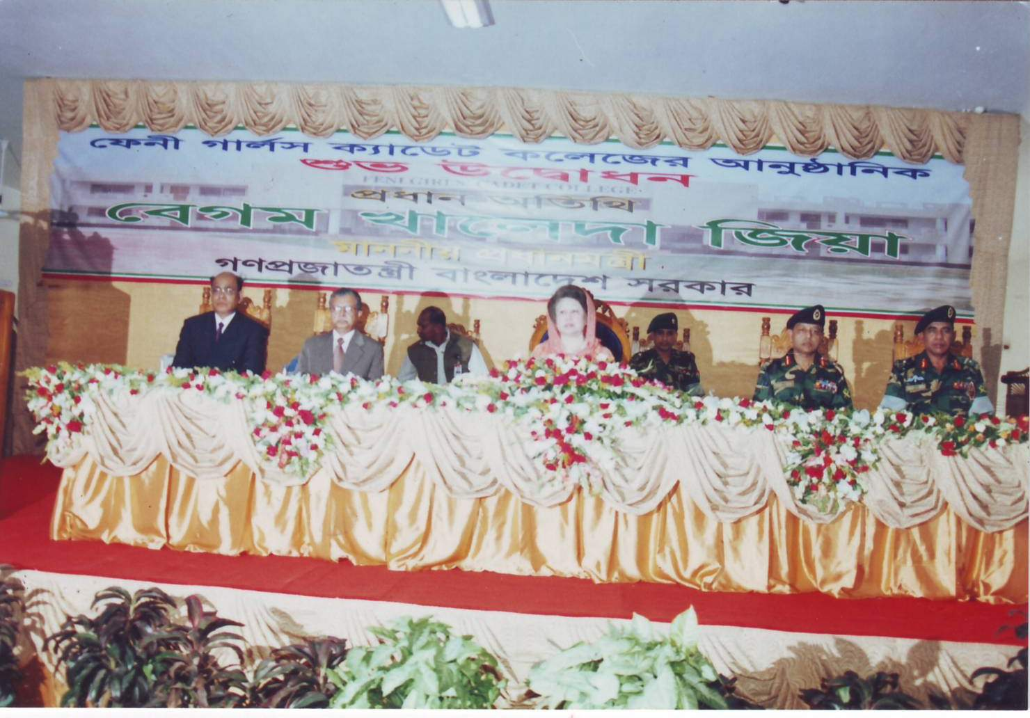 inauguration ceremony of FGCC